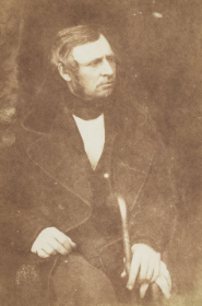 Very Rev John Cook of Haddington